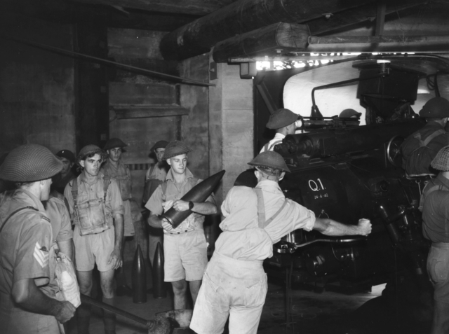 AWM caption : MORETON ISLAND, QLD. 1943-11-13. GUN CREW STANDING BY THE 6 INCH GUN AT FORT COWAN, 1ST AUSTRALIAN MILITARY DISTRICT FIXED DEFENCES, QUEENSLAND LINES OF COMMUNICATIONS AREA. SHOWN: SERGEANT ROGERS (1); GUNNER J. C. RIGBY (2); GUNNER T. E. WHALE (3); GUNNER E. C. EARLEY (4); GUNNER J. W. POCOCK (5); GUNNER E. J. GORRIE (6).